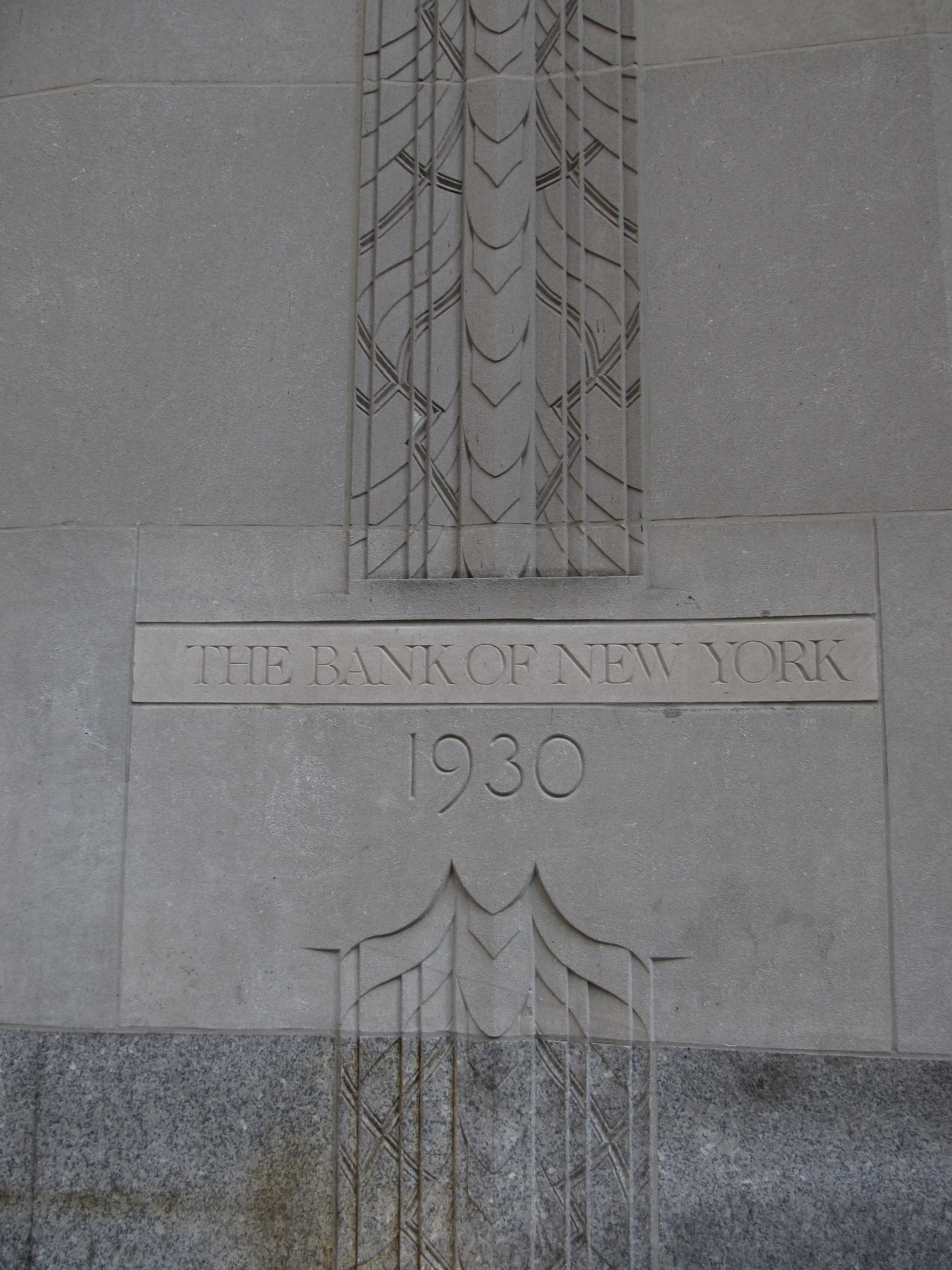 One Wall Street, originally the Irving Trust Company Building, then the Bank of New York Building (after 1988), and after 2007 the BNY Mellon Building, is a bank headquarters building which remains one of the finest Art-Deco-style skyscrapers in downtown Manhattan, New York City. It is located in the Financial District on the prominent corner of Wall Street and Broadway. Today, it serves as the global headquarters of The Bank of New York Mellon Corporation. Construction on the building began in 1929 and was completed in 1931,[1] to the designs of the architectural firm of Voorhees, Gmelin and Walker. It is fifty stories and is 654 feet (199 meters) tall, and measures 1,165,659 rentable square feet. The Wall Street entrance leads into a two-story banking hall whose ceiling is decorated with red and gold mosaics designed by Hildreth Meiere, comparable to the mosaics in the Golden Hall of Stockholm City Hall, and manufactured by the same company, the Ravenna Mosaic Company in Berlin